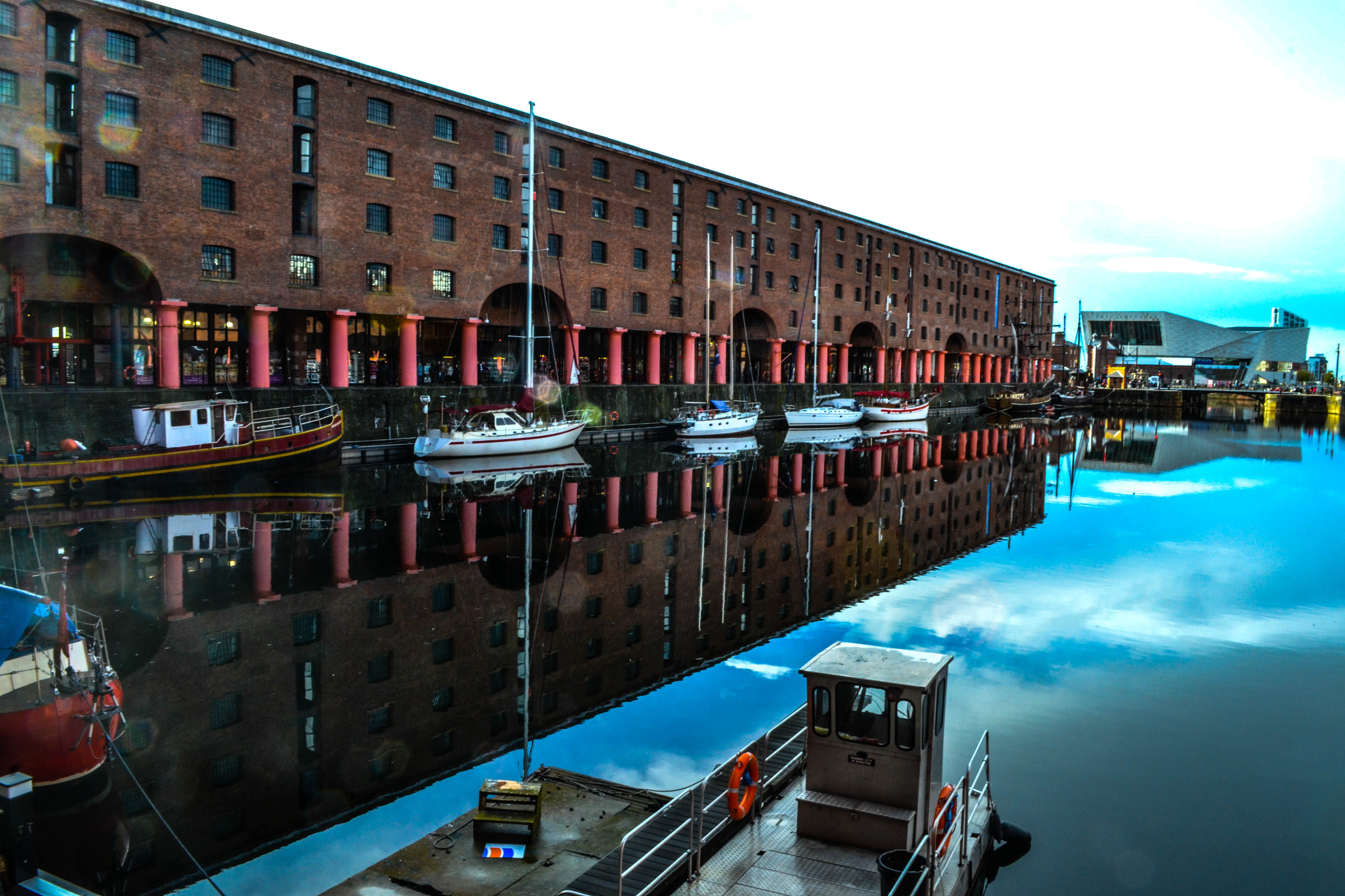 WAREHOUSES B AND C, Albert Dock, Liverpool